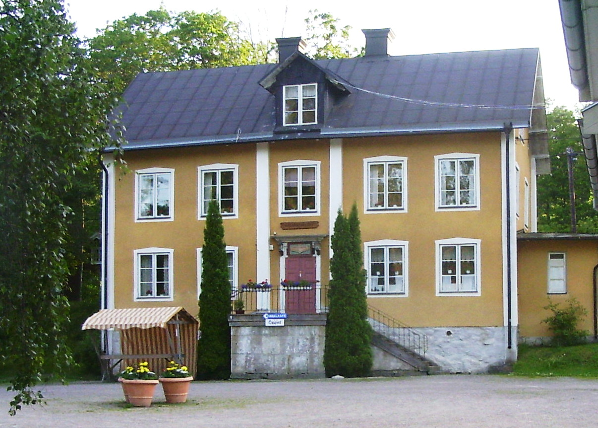 House of the Strömsholm Canal director at Skantzen, Hallstahammar